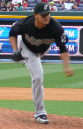 Picture I took of Renyel Pinto on 6-5-07 23:06, 7 June 2007 . . Chrisjnelson . . 168×261 (88,430 bytes)